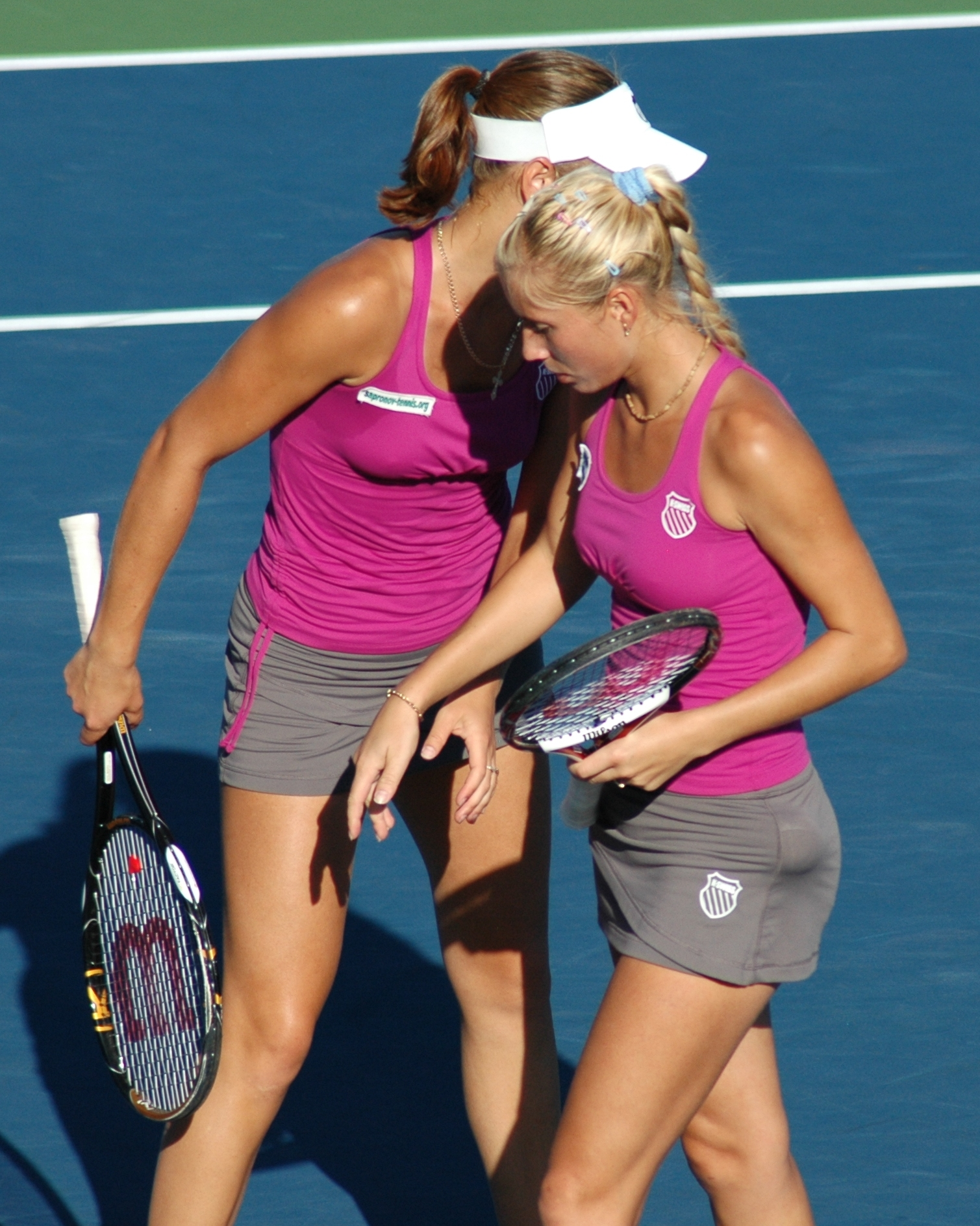 Alona & Kateryna Bondarenko at the 2008 US Open